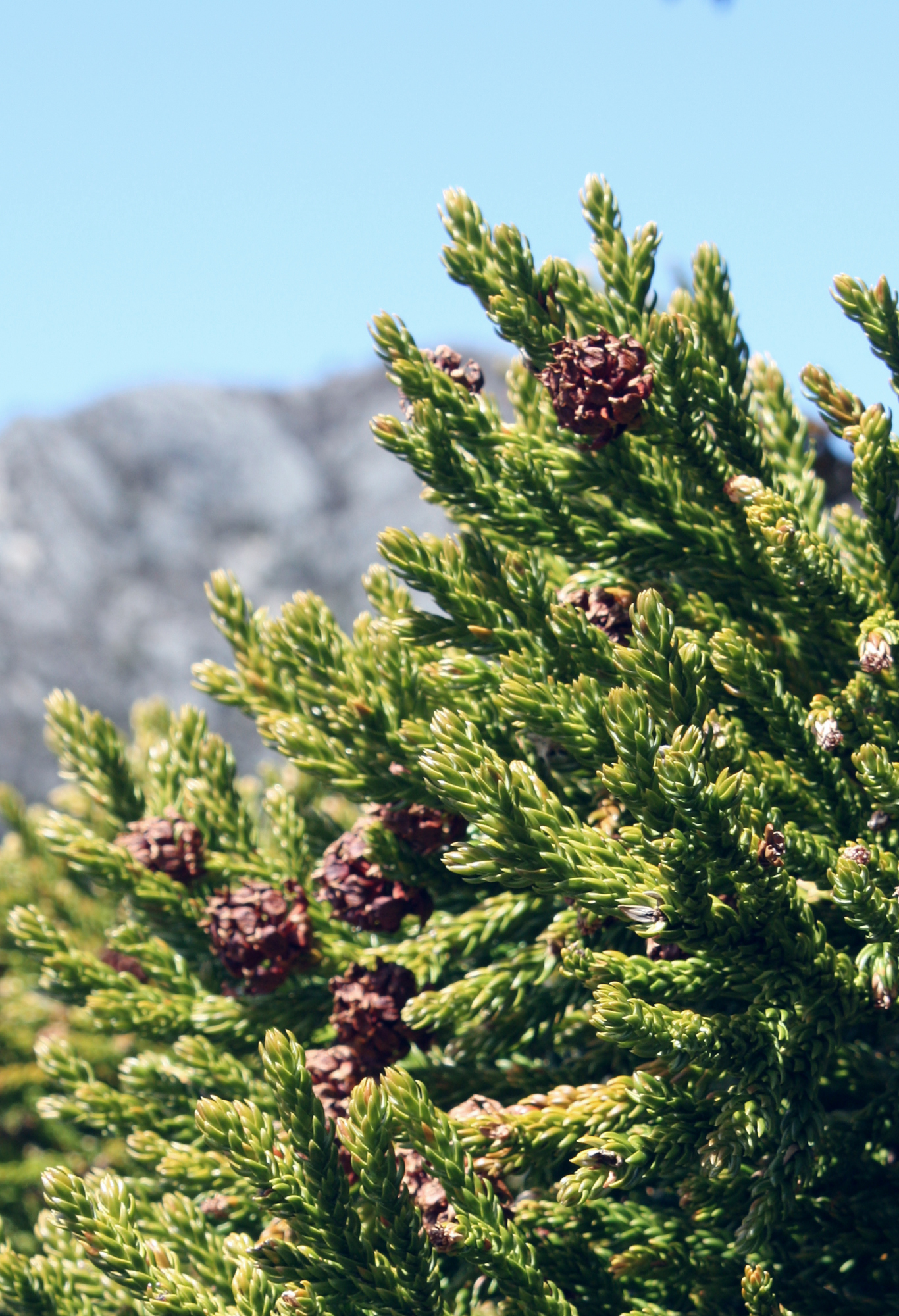 Athrotaxis selaginoides foliage and cones. Cradle Mountain, Tasmania.